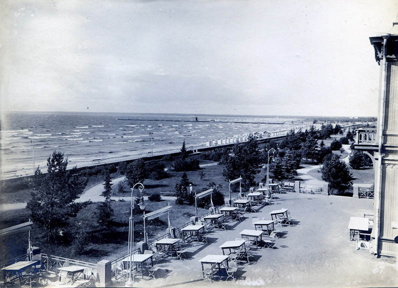 Photo of Miller's pier in 1913